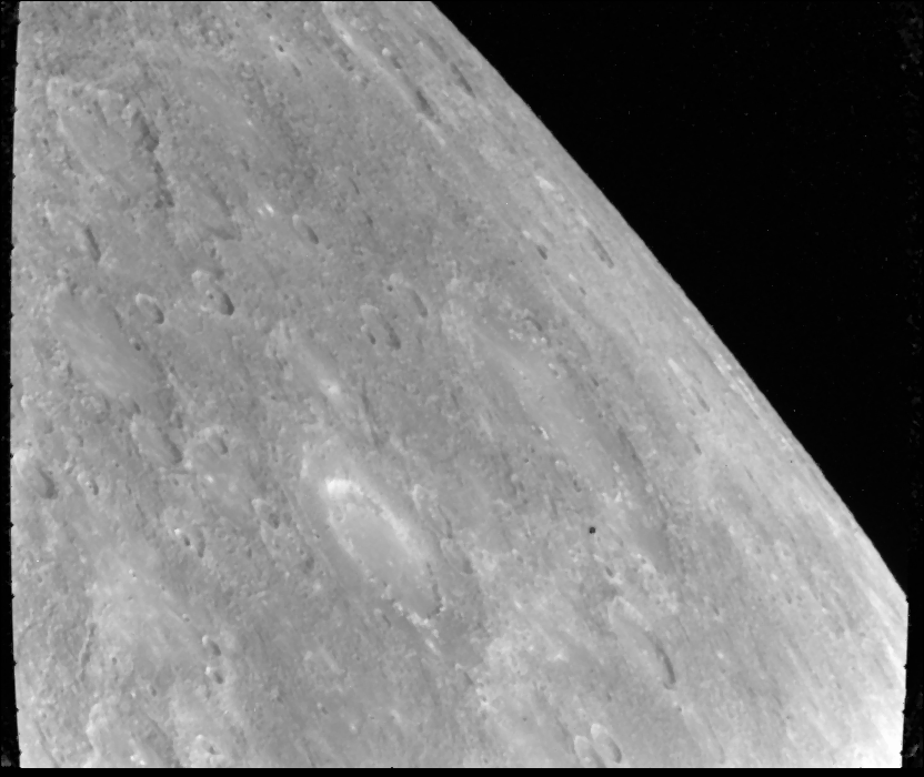 Image Number 0000142 GMT 1974:088:22:07:44 Start Time 1974-03-29T22:07:44.263Z Latitude 29.61° to 47.32° Longitude 71.7° to 112.36° Resolution (meters per pixel) 452 Incidence Angle 40.77° Emission Angle 73.08° Phase Angle 79.87°